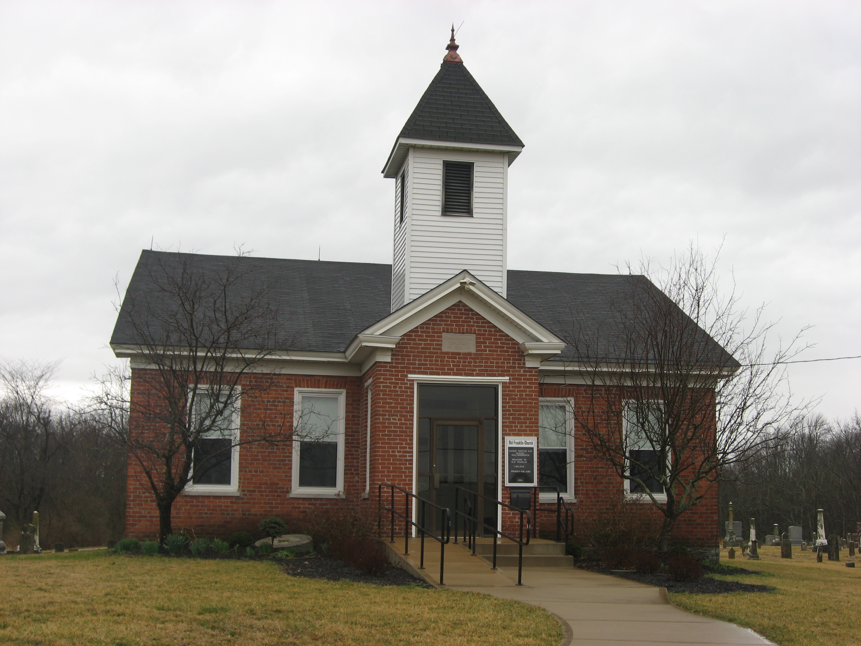 Front of the Old Franklin United Brethren Church (now Old Franklin United Methodist Church), located on Franklin Church Road northeast of Brookville in Fairfield Township, Franklin County, Indiana, United States. Built in 1831 and substantially modified since then, it is listed on the National Register of Historic Places.